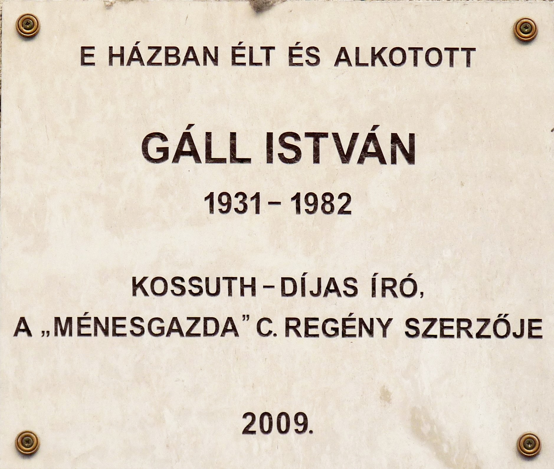 István Gáll commemorative plaque in Budapest District VI, Ó Street No 5.